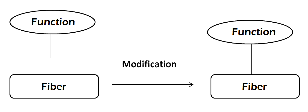 OrganoClick Technology